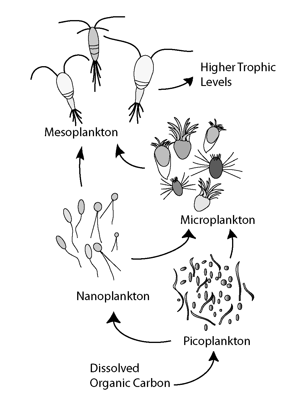 Illustration of a microbial loop.